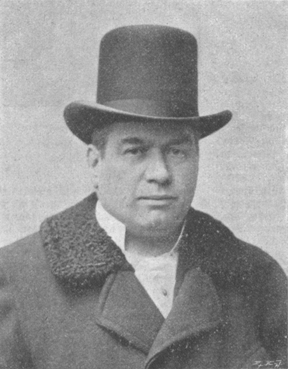 Rudolf Tyrolt (1848–1929), Austrian actor and writer